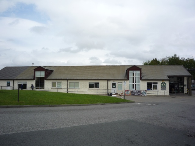 Wensleydale Creamery The creamery making a wide selection of cheeses. Also encompasses a visitors centre and factory tour.